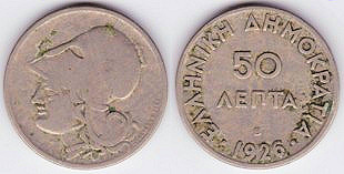 50 lepta 1926, Greece